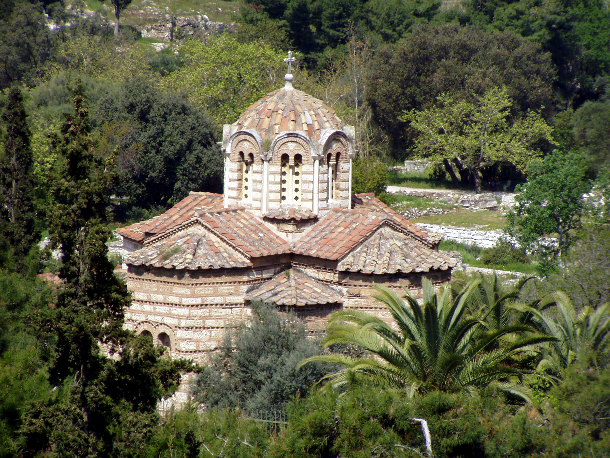 This is the church Agii Apostoli at the Agora of Athens.